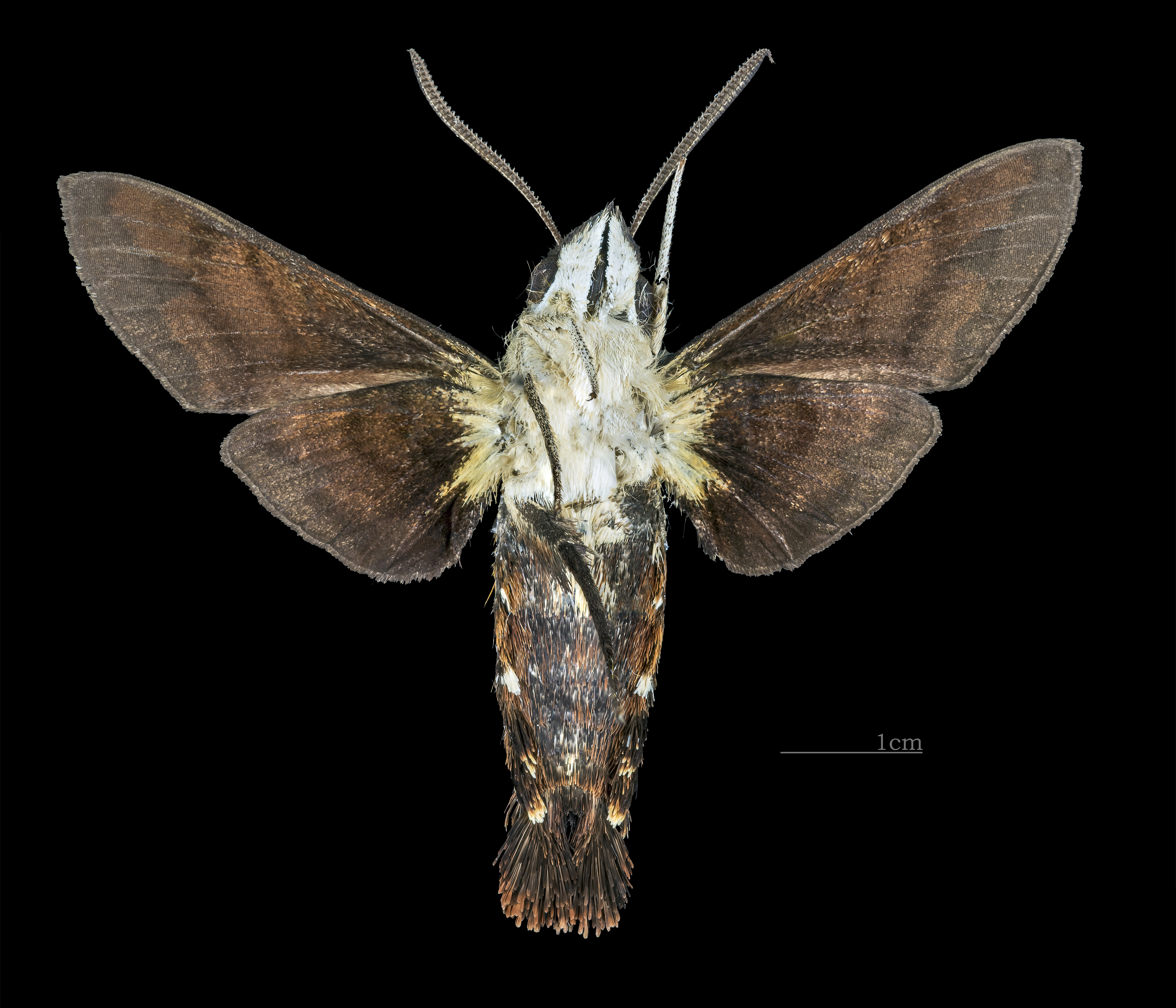 Macroglossum avicula - △ Ventral side Collection of the Mathematician Laurent Schwartz